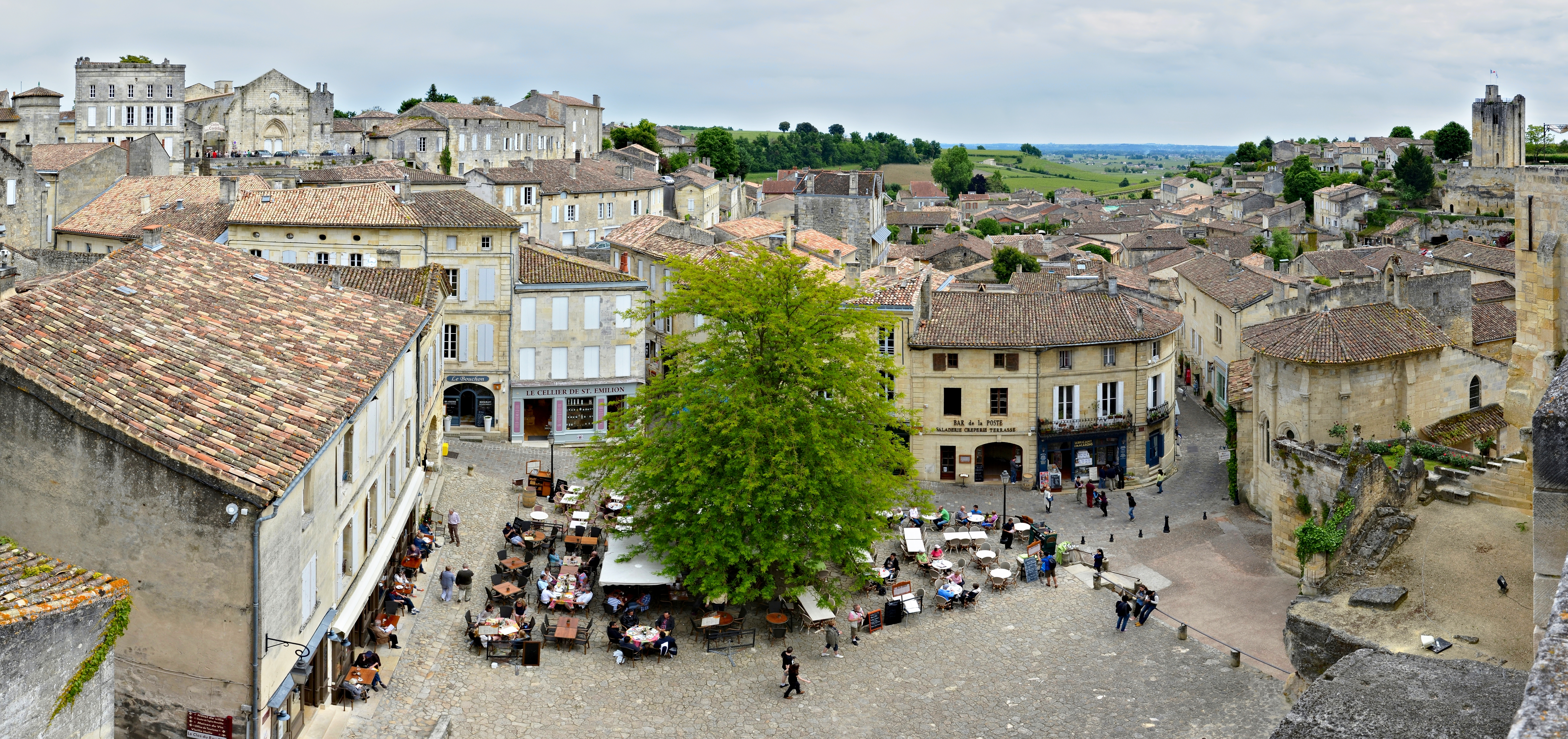 Village and main square as seen from the monolithic church, Saint-Émilion, Gironde, France. This place is a UNESCO World Heritage Site, listed as Jurisdiction of Saint-Emilion.